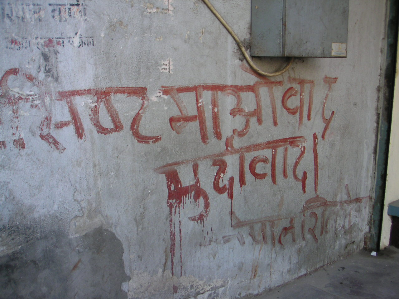 Nepal Shiv Sena graffiti in Kathmandu. Text says "Down with Maoism".